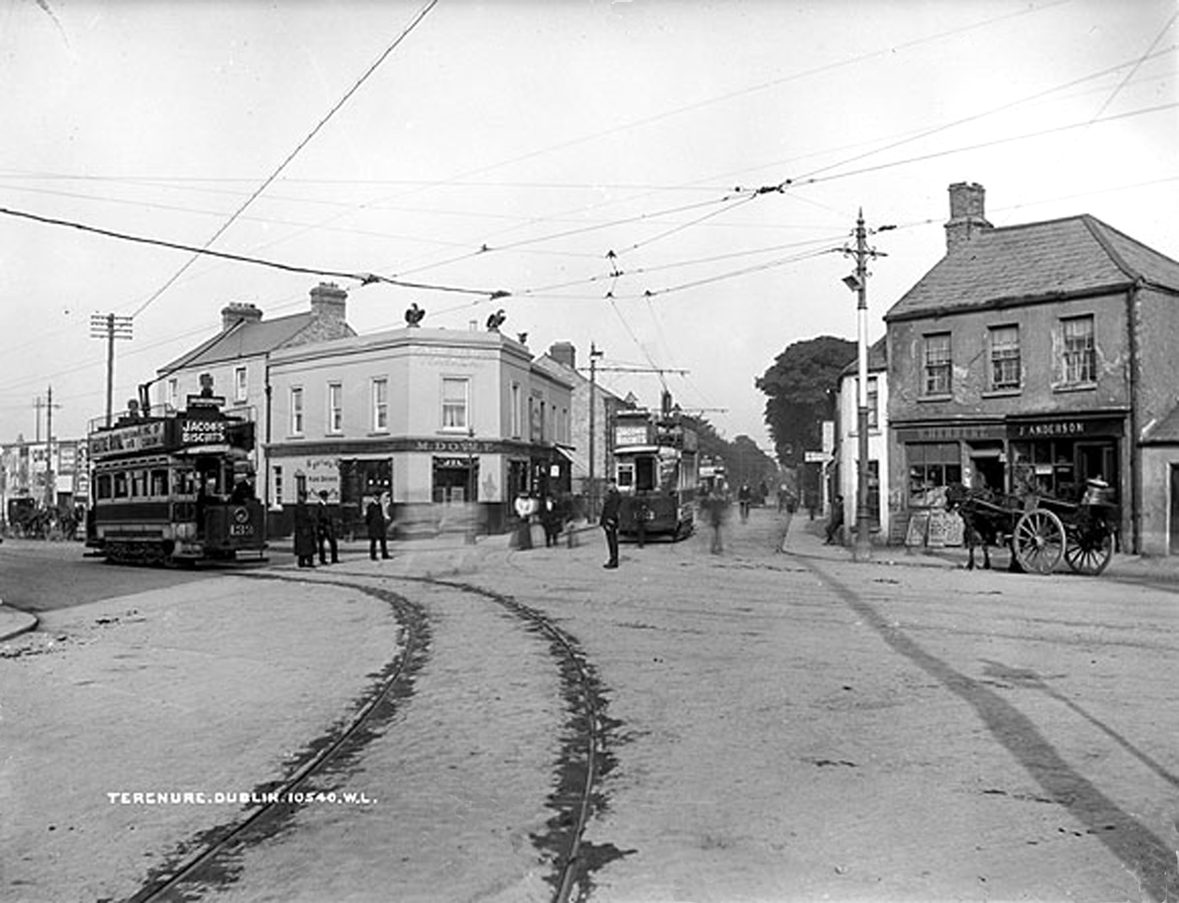 Old PC. (According to Dublin tramways:) The route 16 tram (left) & the route 15 tram (centre) at Terenure Cross, c. 1900. The line in the foreground connected with the Dublin and Blessington Steam Tramway's Terenure depot. It was used at night to transfer goods between the two systems.The camera looks out from the short road called Terenure Place (behind the camera) with Terenure Road East straight ahead (picture centre). Terenure Road North branches to the left, and Rathfarnham Road to the right (off-camera).